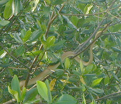 Cook's Tree Boa, Caroni Swamp Trinidad, my photo released to Wikipedia